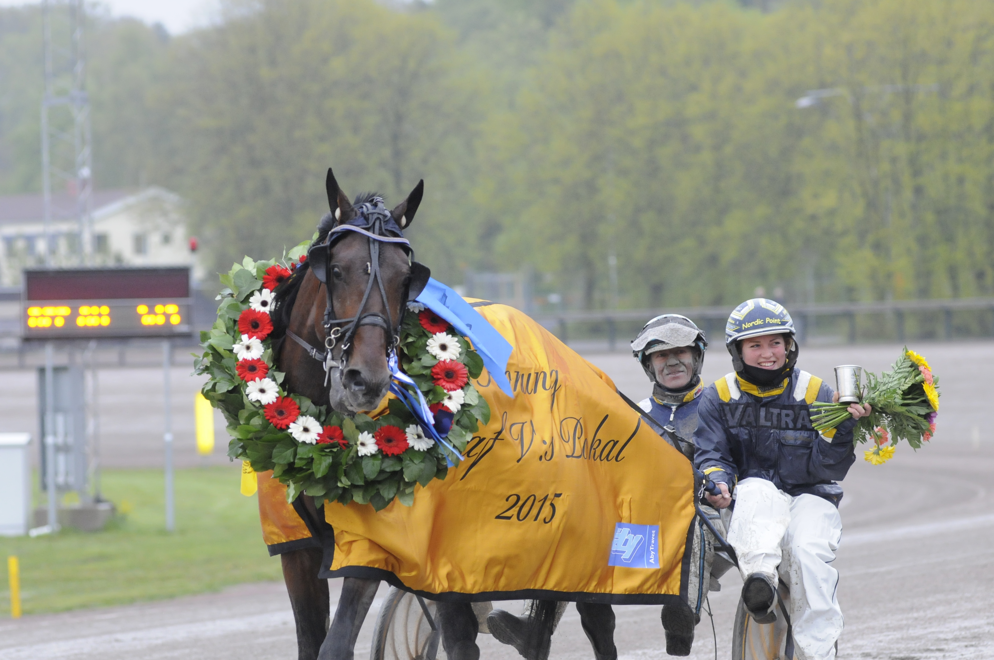 Volstead and driver Örjan Kihlström after winning Konung Gustaf V:s Pokal 2015-05-16.